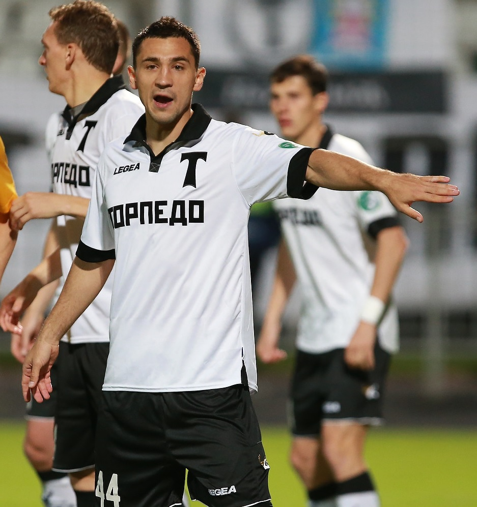 Nikolai Fadeyev with FC Torpedo Moscow in a game against FC Ararat Moscow.